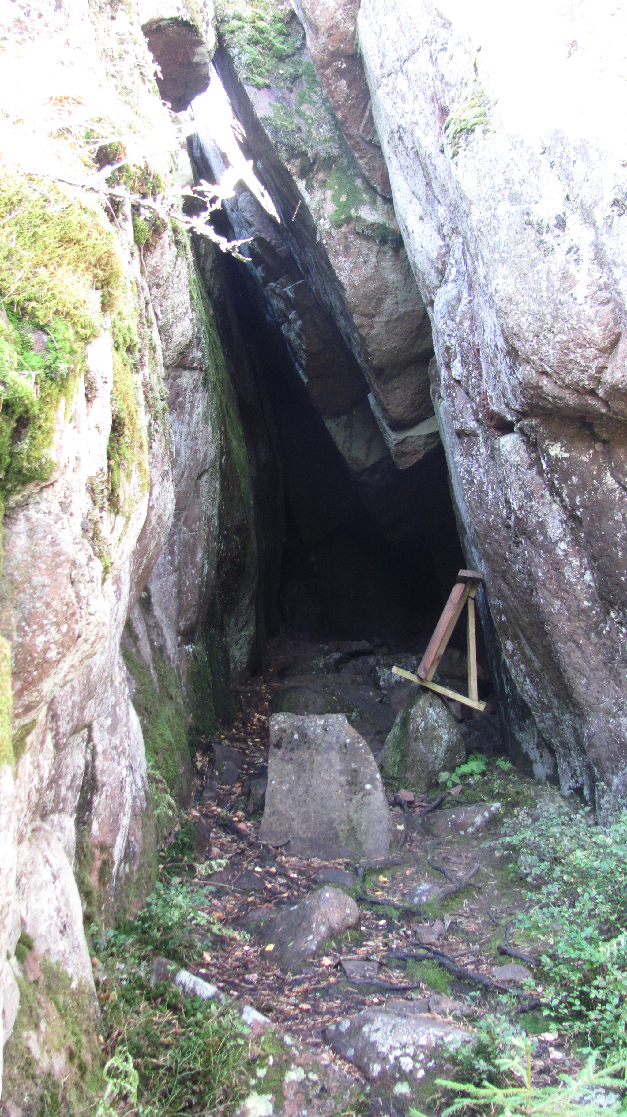 Cave "Trollkyrka", Jomala, Fasta Aland, Finland.